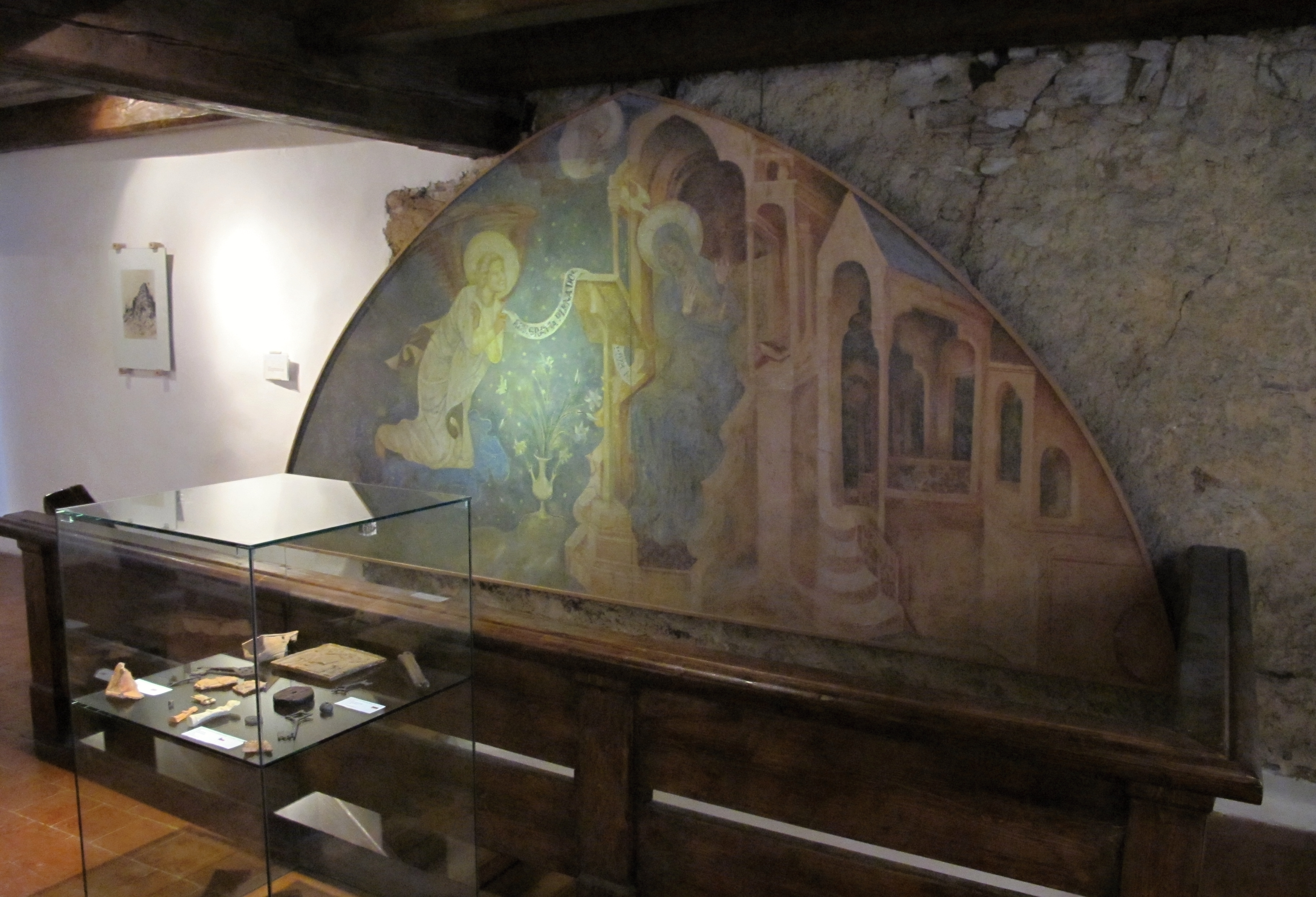 Kašperk Castle near Kašperské Hory; nature park Kašperská vrchovina, Klatovy District in Czech Republic